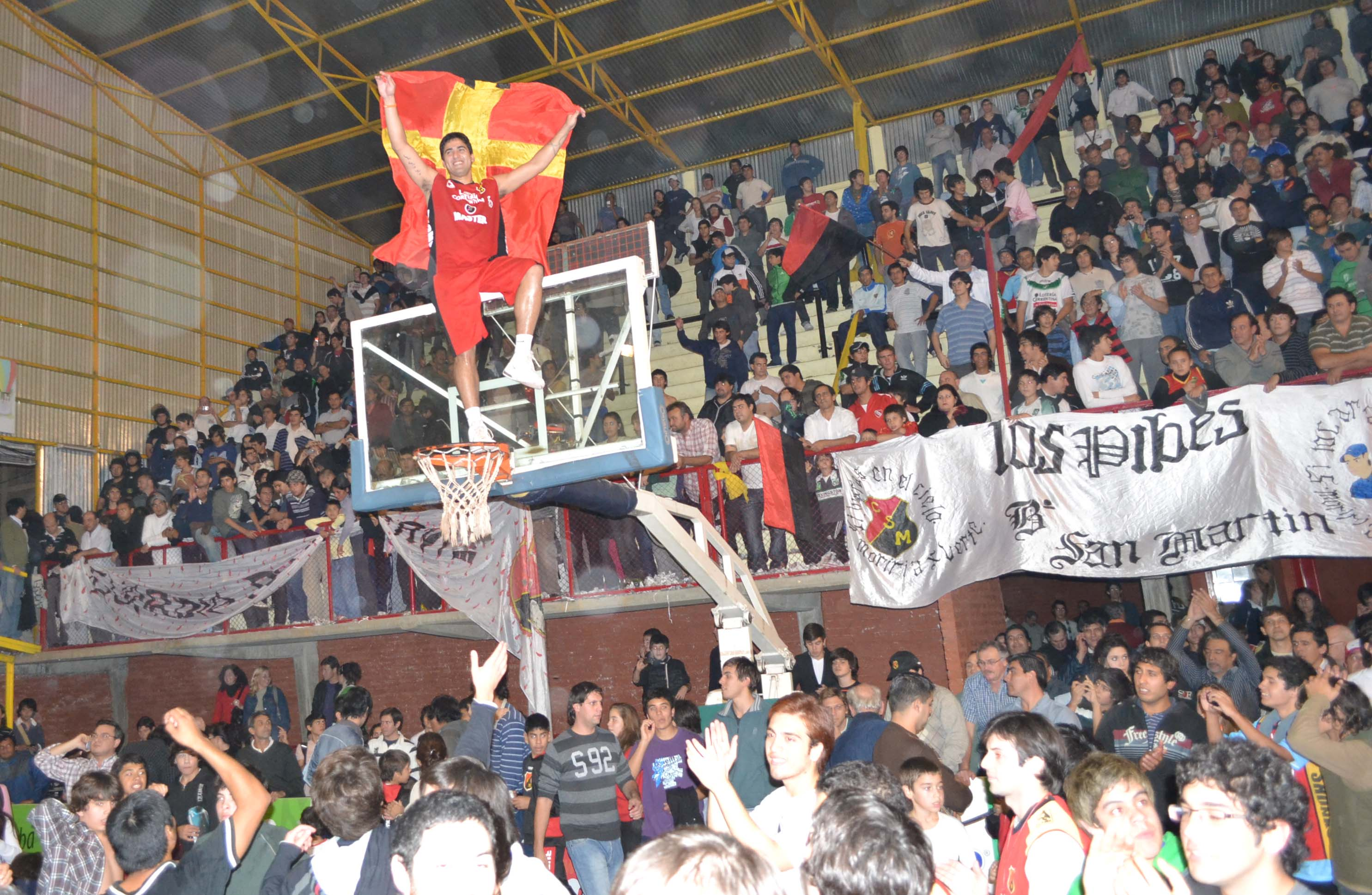 elias